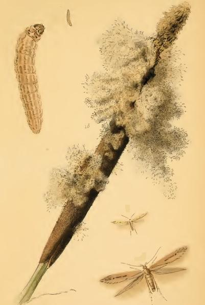 Stainton’s Natural History of the Tineina (1855–1873): Limnaecia phragmitella - larva and Typha latifolia inflorescence, showing external effects of the larva inside it